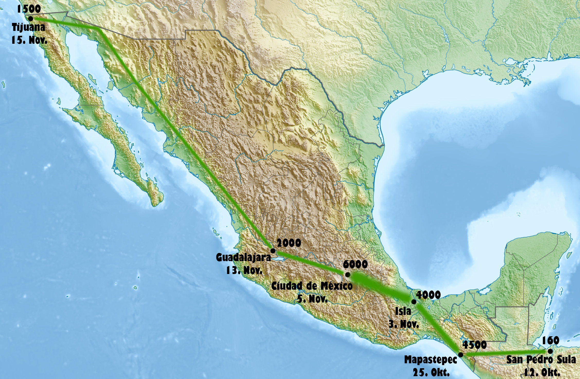 Physical location map of Mexico Equirectangular projection, N/S stretching 110 %. Geographic limits of the map: * N: 33.3° N * S: 14.2° N * W: 118.5° W * E: 86.3° W